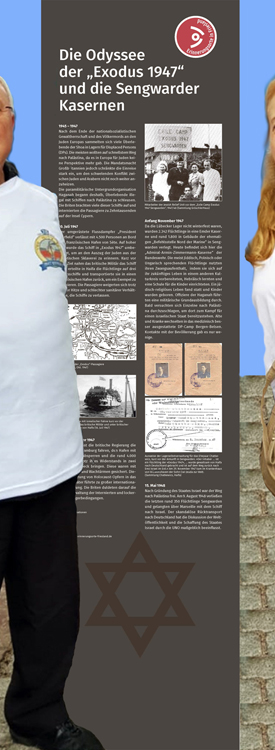 A memorial plaque to Exodus-1947 in Sangwarden